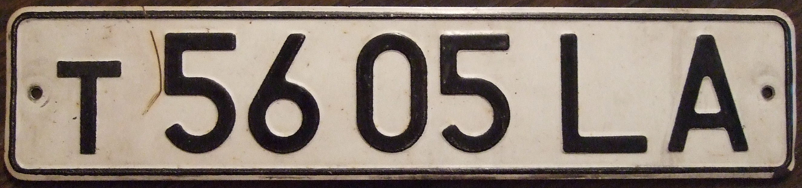 This Latvian SSR plate was issued at the time of the USSR break up in 1991. The plate used western letters or letters common to both Cyrillic and western alphabets. By 1992 Latvia would issue it's own distinct plates.